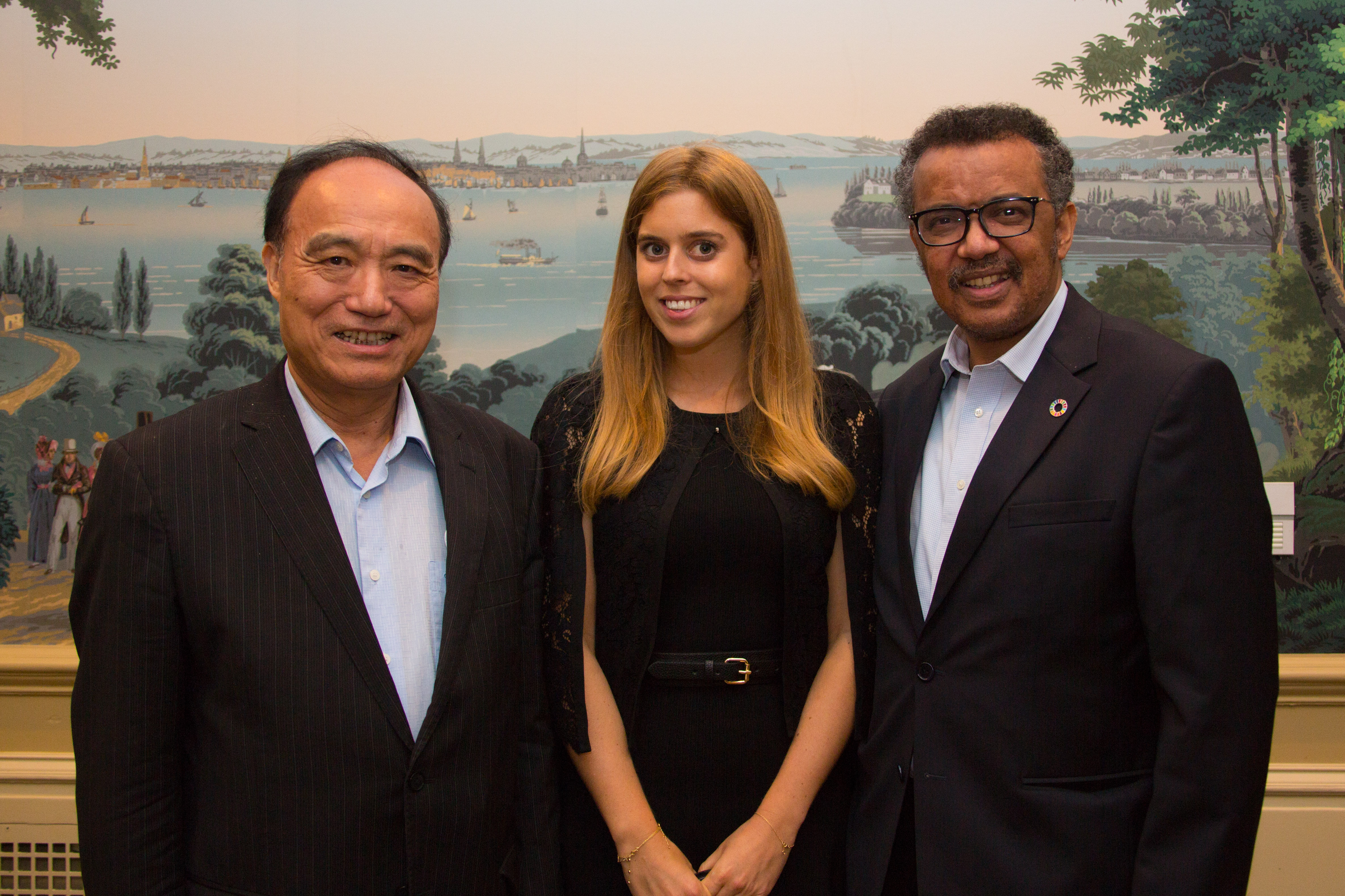 Houlin Zhao, Secretary - General, ITU, Her Royal Highness Princess Beatrice Elizabeth Mary of York and Dr Tedros Adhanom Ghebreyesus, Director-General, WHO - Photographed at a special UN Broadband Commission Dinner, Yale Club, New York, 16 September 2017. ©ITU/ M. Jacobson – Gonzalez